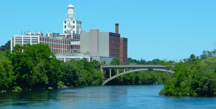 This is a photo taken by myself of the Quaker oats facility in Peterborough. Edited for size.